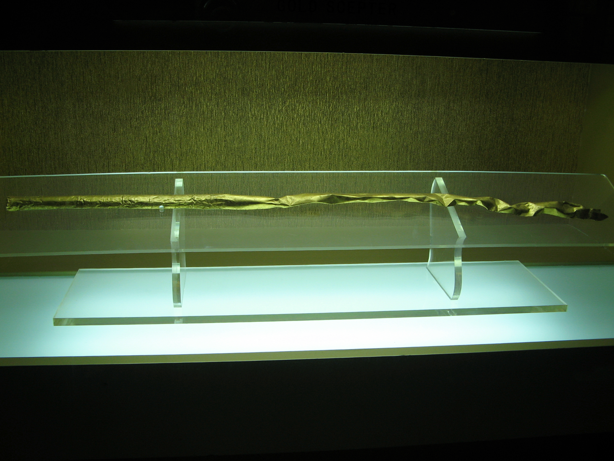 Gold Sheath. Sanxingdui Museum This gold sheath originally covered a wooden staff. An obvious emblem of the ruler's authority, this is yet another item that is unique to Sanxingdui; nothing like it has been found elsewhere. The object's surface bears incised decorations of fish and birds pierced by arrows, in front of a band of mask-like faces.